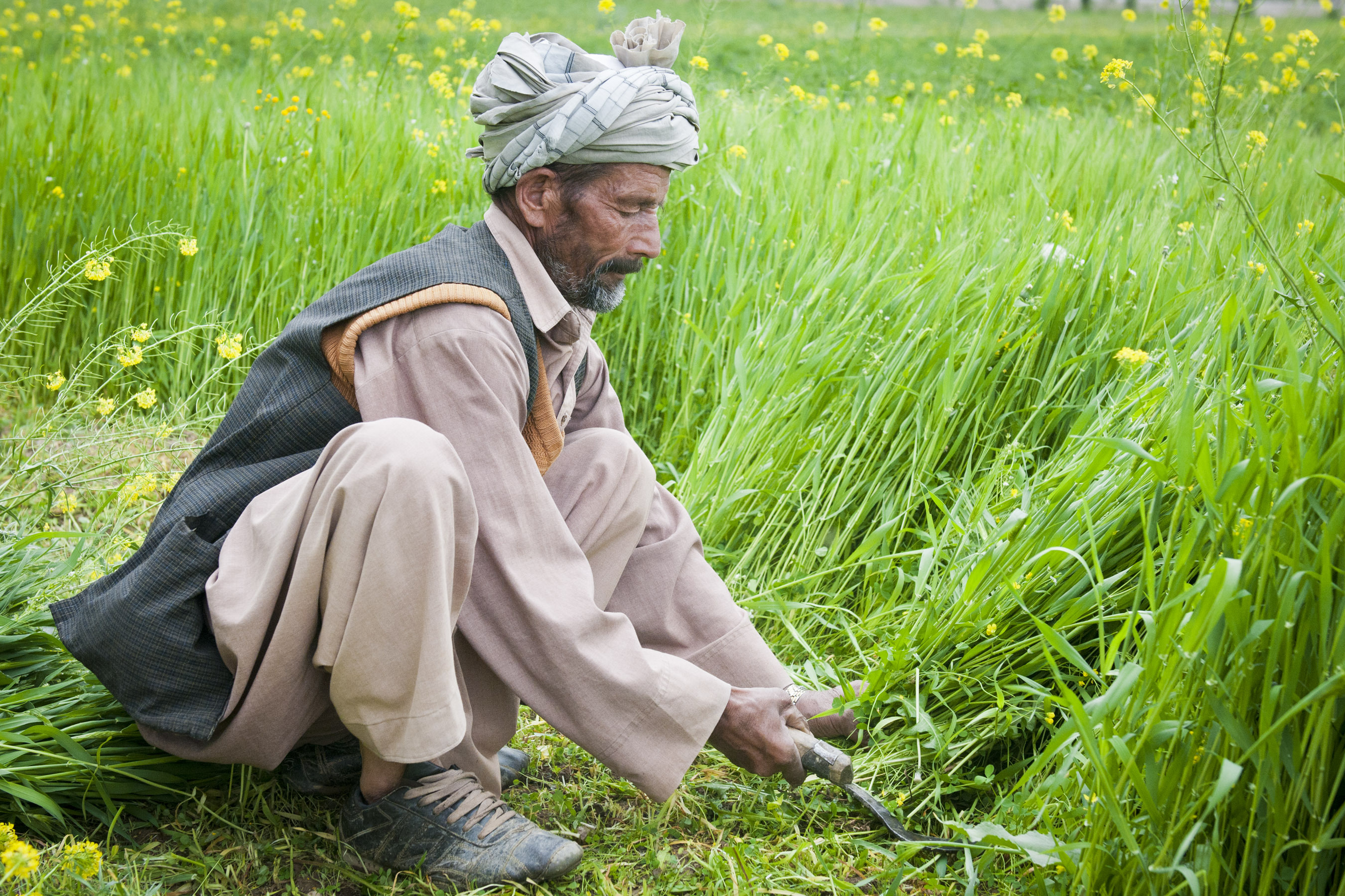 A farmer cuts alfalfa in a field near the town of Bamyan, June 16, 2012. Many farms in the area are still planted and harvested entirely by hand. The Bamyan Provincial Reconstruction Team has been labouring to replace these kinds of outdated farming techniques with tractors and other modern advancements. Potatoes have become the main cash crop for the province, contributing millions of dollars to its economy every year. (Photo ID: 614480)